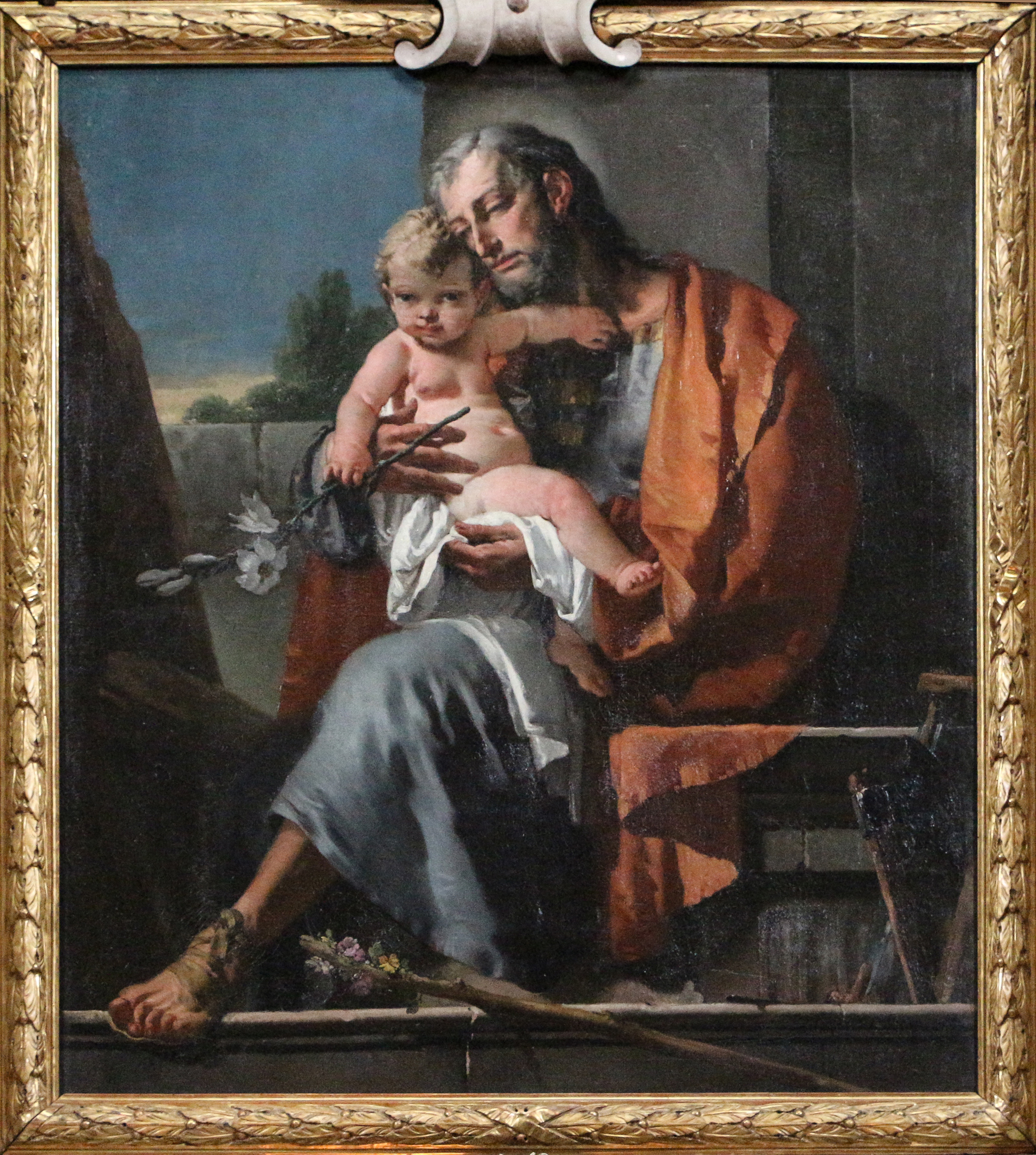 San Salvatore (Bergamo)